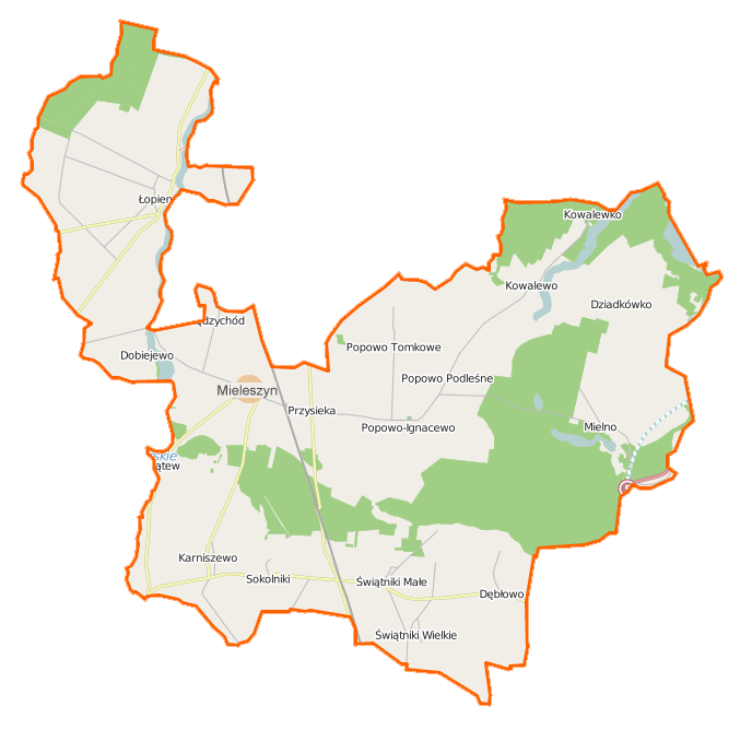 Map of Gmina Mieleszyn, Poland This map of Mieleszyn (gmina) was created from OpenStreetMap project data, collected by the community. This map may be incomplete, and may contain errors. Don't rely solely on it for navigation. Border coordinates52.742917.4209←↕→17.657452.6037